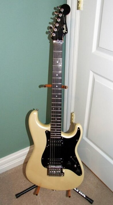 1985 Fender Contemporary Stratocaster HH with System III tremolo and locking clamp behind adjustable nut.